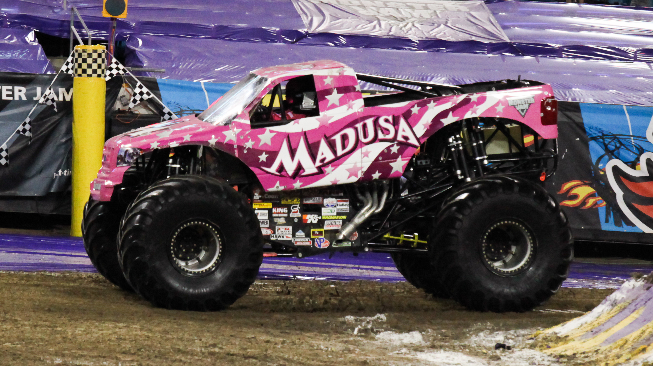 Madusa